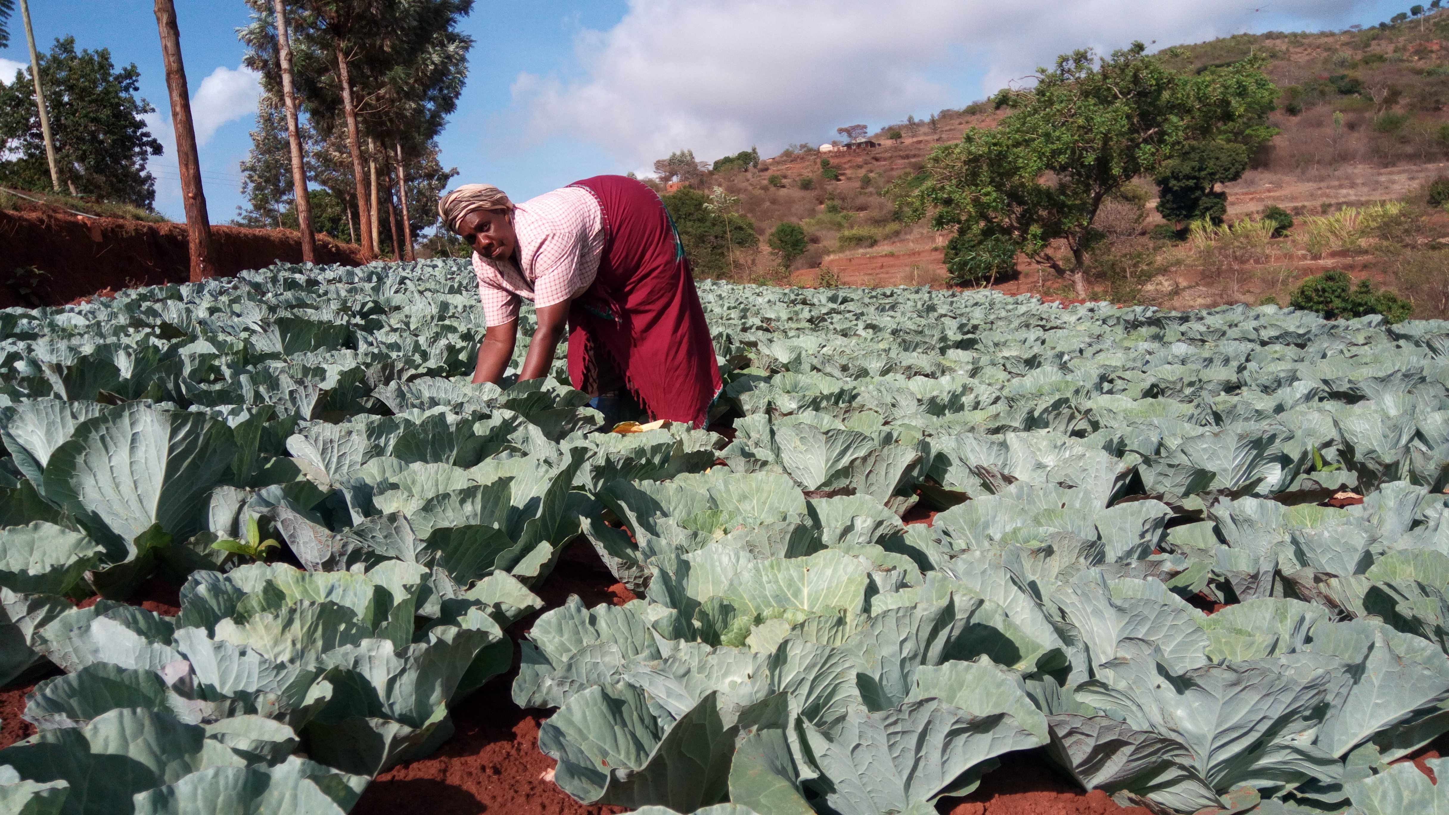 Woman checking her cabbages fo diseases This is an image of "African people at work" from Kenya